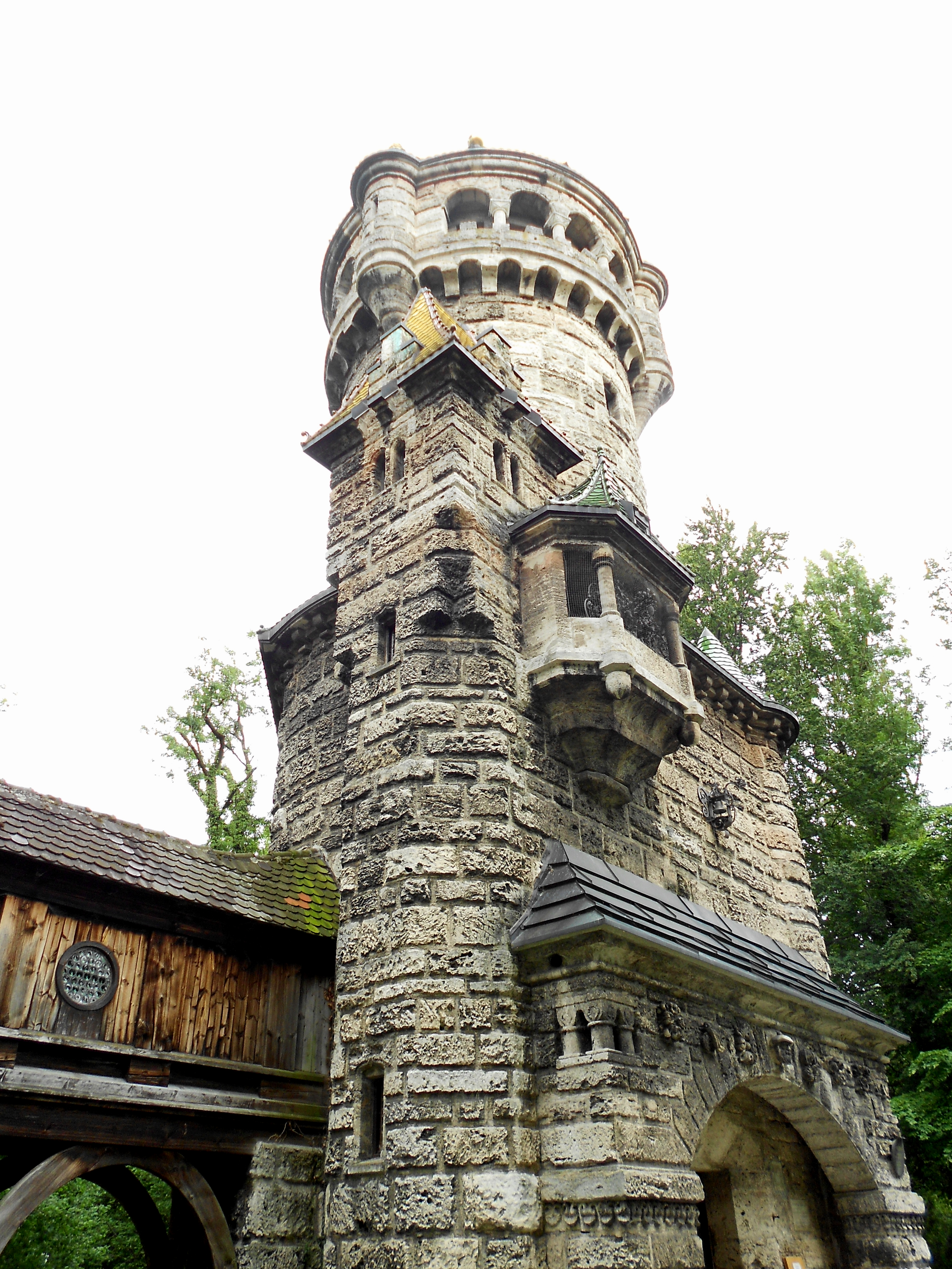 Mutterturm - Landsberg am Lech - Germany